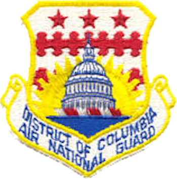 District of Columbia Air National Guard emblem